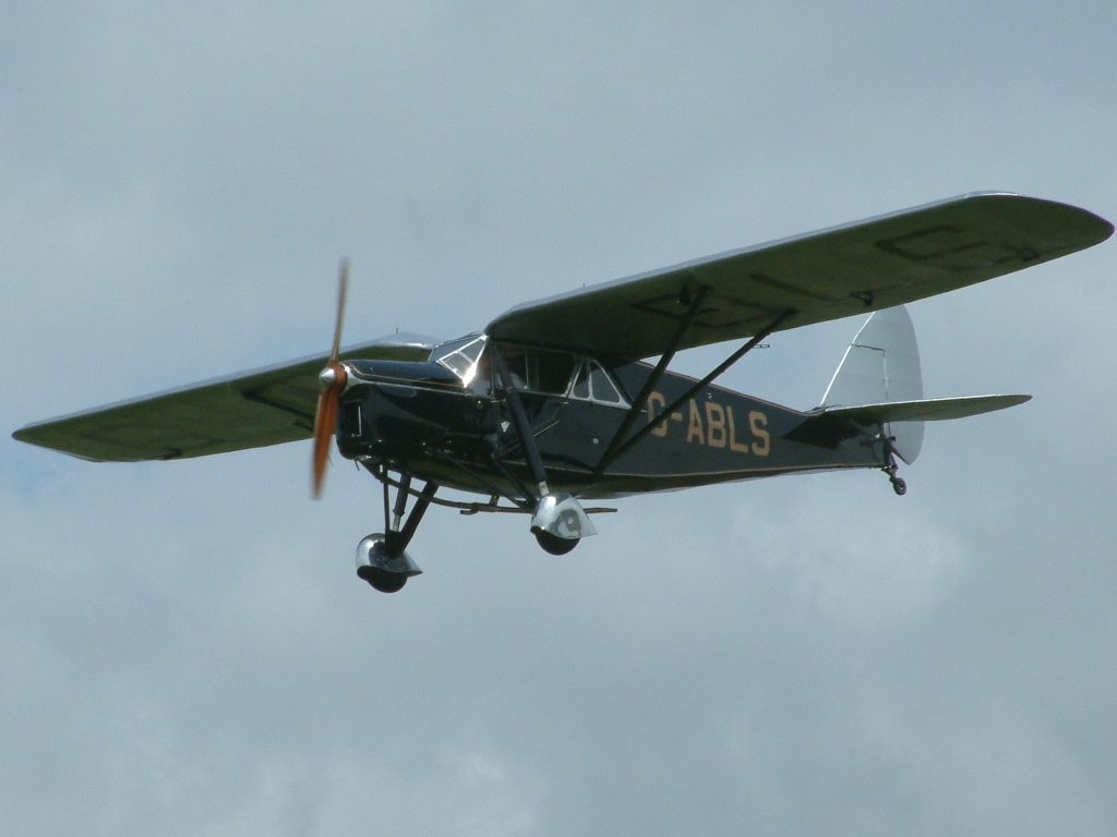 De Havilland DH.80A Puss Moth G-ABLS photographed in 2003 at Shoreham Airport, England.